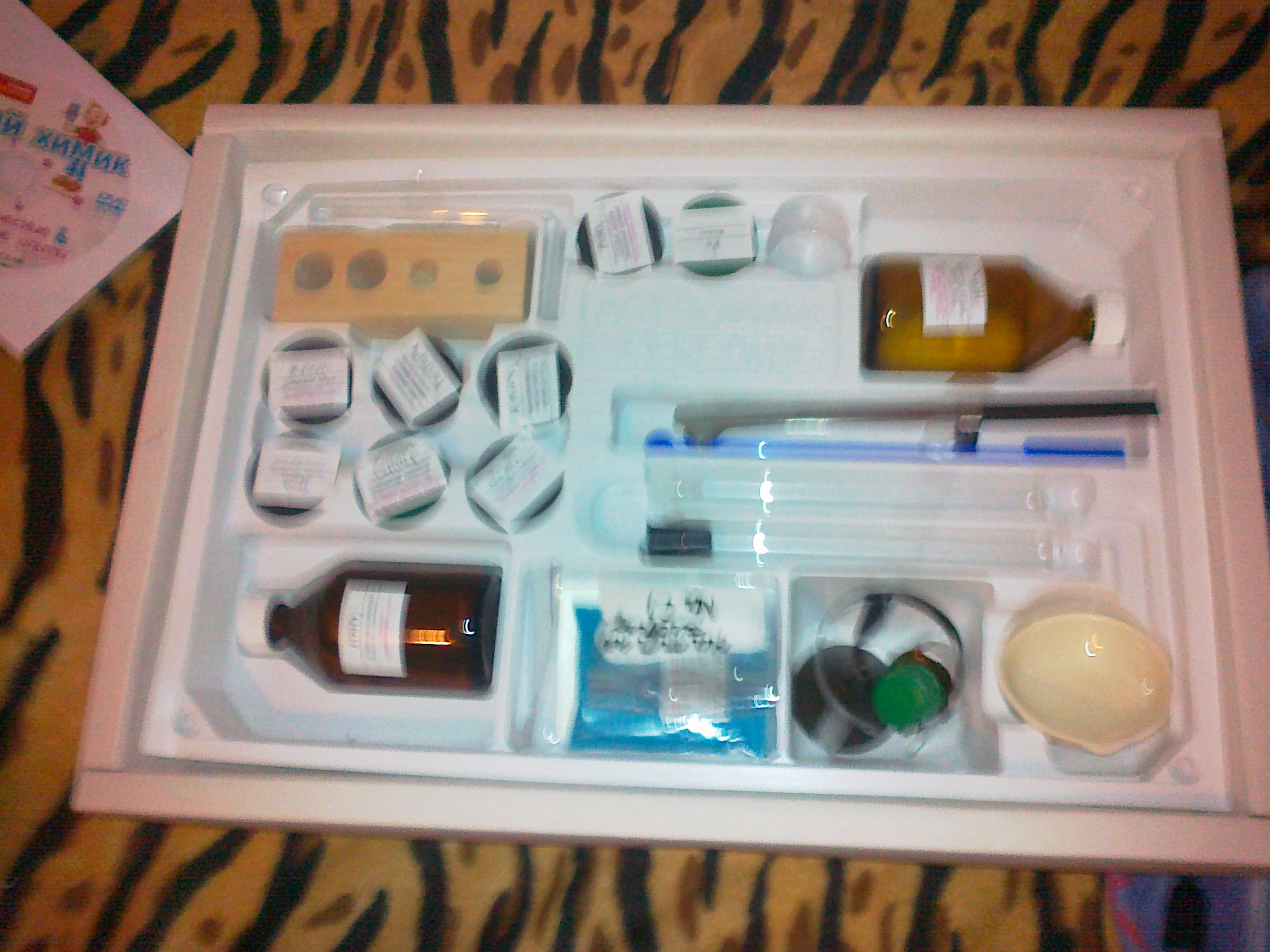 Chemistry